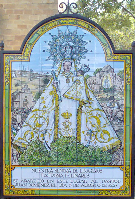 Glazed Ceramic Tile, Conmemorating the Virgin Mary's apparition in Linares Spain the 5th of August, 1227